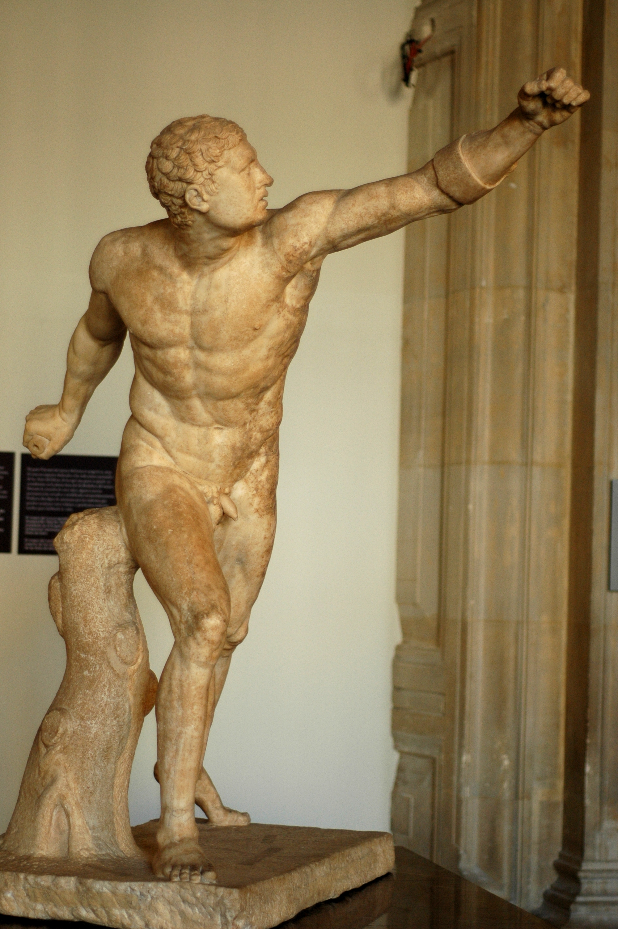 Borghese Gladiator. Copy (ca. 100 AD) of an original of the 3rd century BC, found in Anzio, Latium.